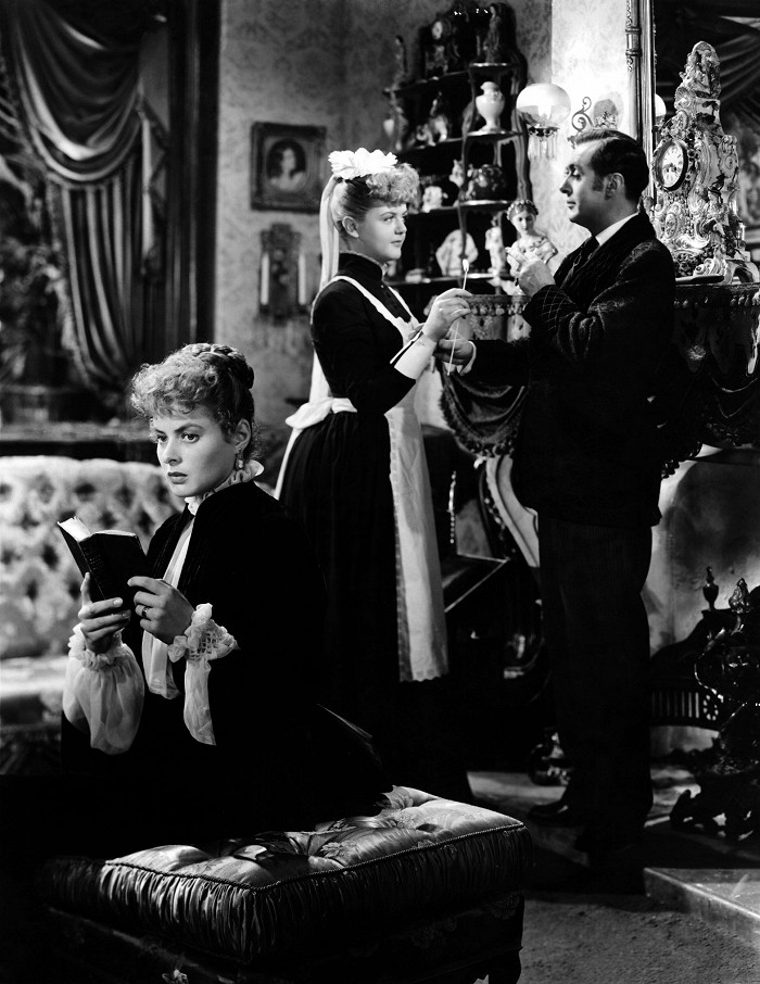 Scene from the 1944 movie Gaslight with Ingrid Bergman, Angela Lansbury and Charles Boyer